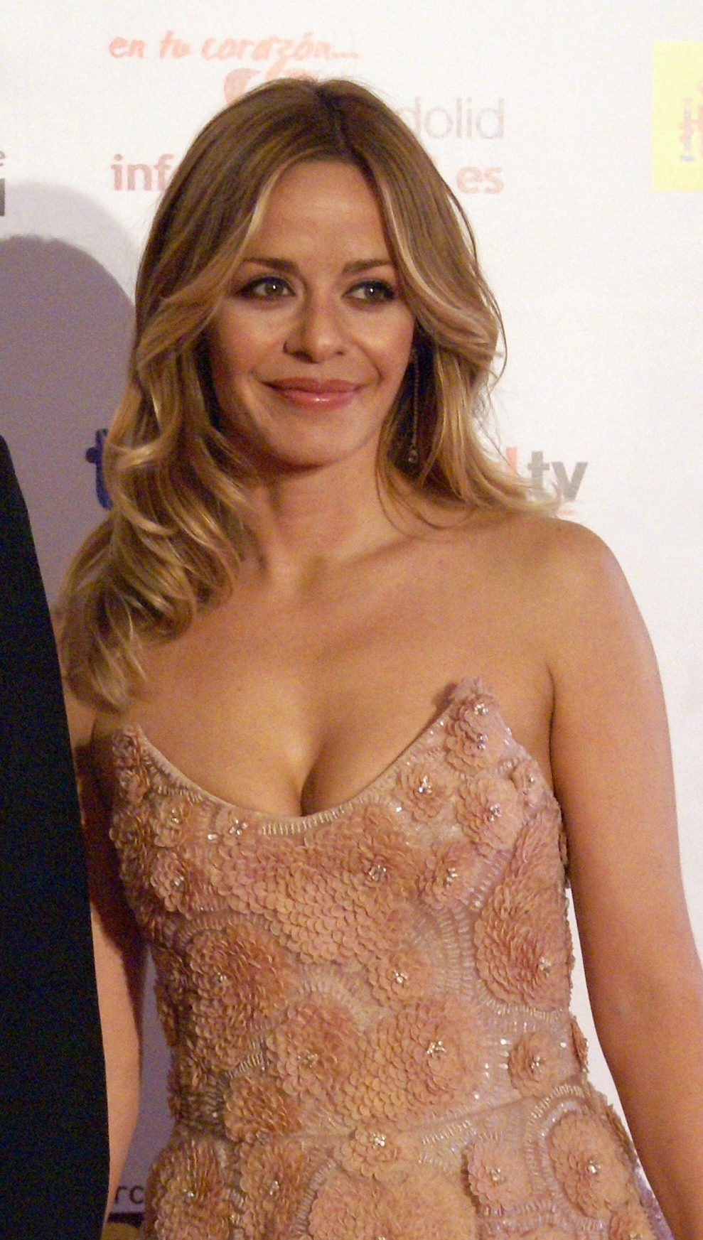 María Adánez, Spanish actress, at the Seminci 2011.